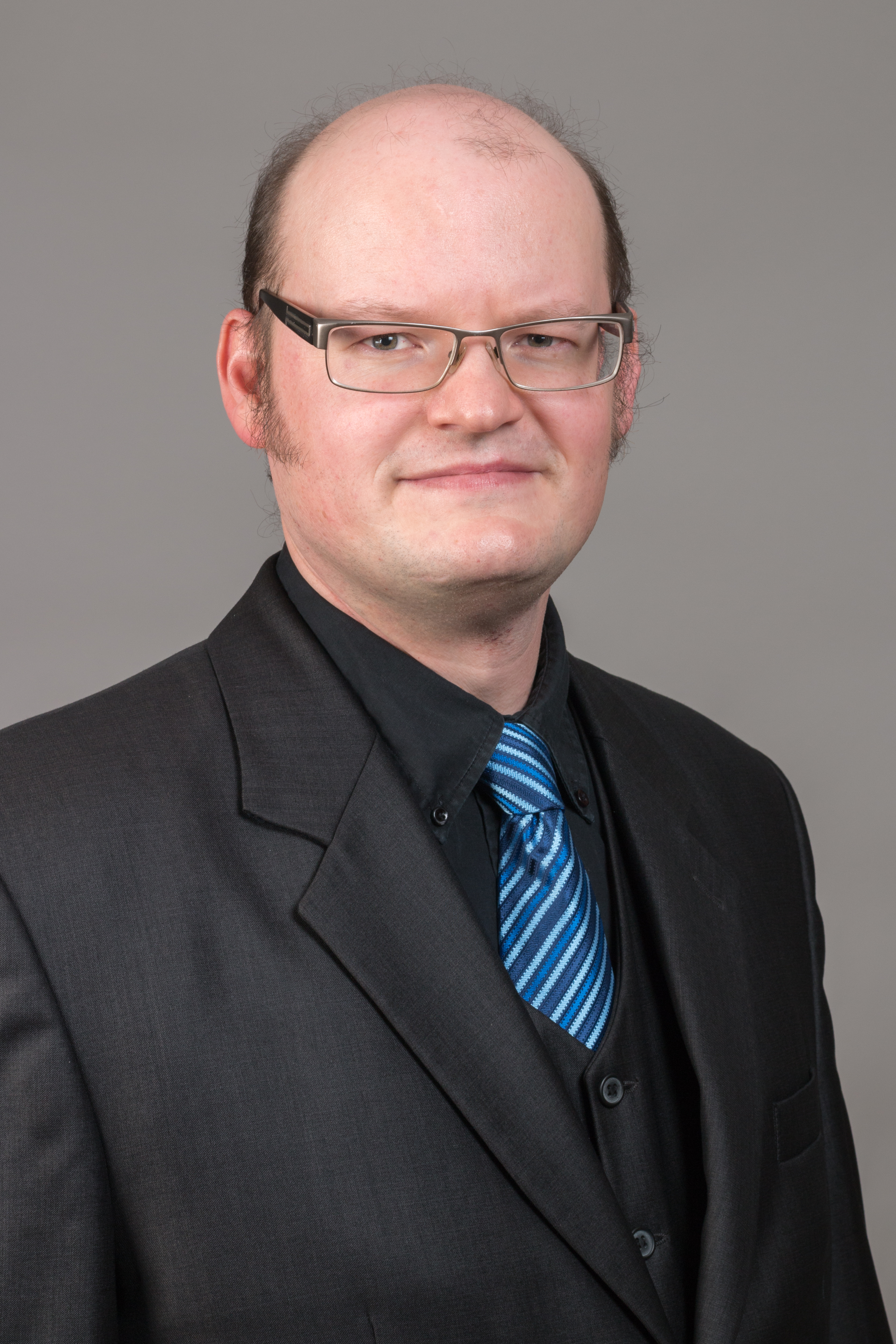 Daniel Hensel, composer, VJ, musicologist and music theorist from Büdingen, Germany